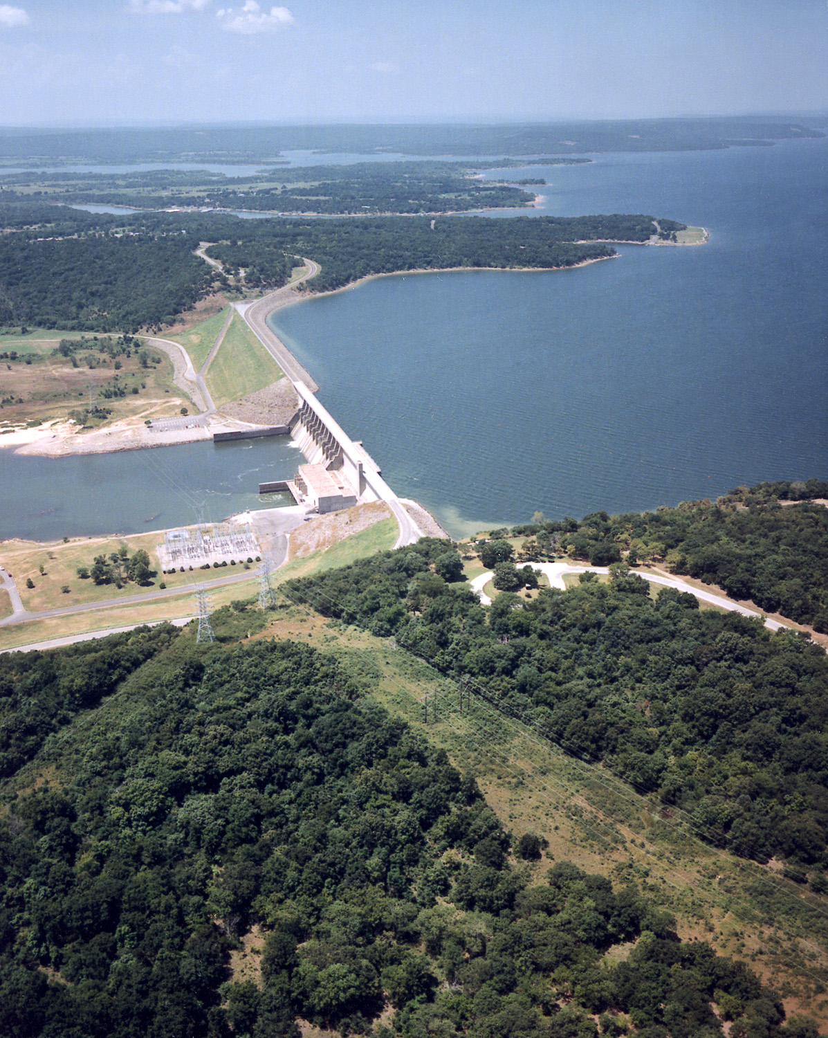 Aerial view of Lake Eufaula and Dam on the Canadian River in the U.S. state of Oklahoma. The lake is located in McIntosh, Pittsburg, and Haskell Counties. The lake is located approximately 65 miles (104 km) south-southeast of the city of Tulsa. The U.S. Army Corps of Engineers constructed the dam for flood control and water supply. Coordinates: 35°18′23.69″N 95°21′30.32″W / 35.3065806°N 95.3584222°W